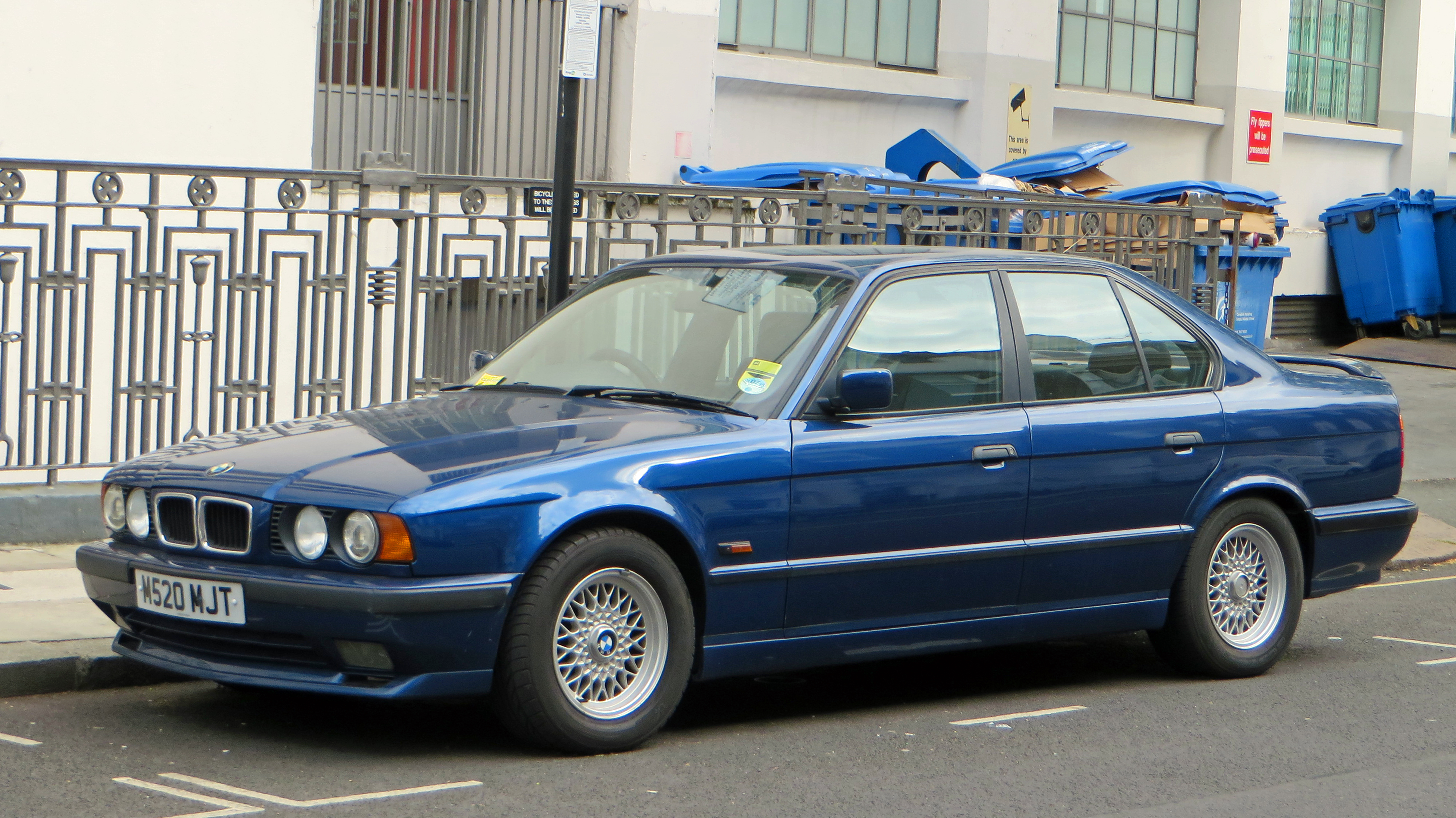 1995 BMW 525i Sport - another E34 in the same street All official UK Sport models came factory fitted with aerodynamic M Technic body styling consisting of front and rear bumpers, side skirts and M Technic rear boot spoiler. In addition to this they also came factory fitted with the following standard equipment - cloth or leather BMW sports seats - leather trim was a £1079 optional extra, M Technic I or II steering wheel, limited-slip differential, 30 mm lower M Technic sports suspension manufactured by Boge/Bilstien, close ratio 5-speed manual gearbox or the switchable (EH) 4-speed ZF automatic transmission which was an £1860 optional extra, Blaupunkt Cambridge radio/tape unit + 6 stereo speakers, On board computer and cruise control (standard equipment on 535i sport and options on the 525i sport), front fog lights, ABS, electric windows front and rear, electric steel sunroof, shadowline tail pipe trim, chrome exterior trim or shadowline trim which was a £389 cost option, 15" BBS alloy wheels - the very earliest Sport models came with larger 415 mm BBS forged TRX alloys with metric tyres. The very last 525i Sport models came with a black roof lining and dark maple wood veneer interior trim. The optional extras list for both Sport models was extensive and could push the standard £34,480 (1989 535i sport manual) list price up considerably.